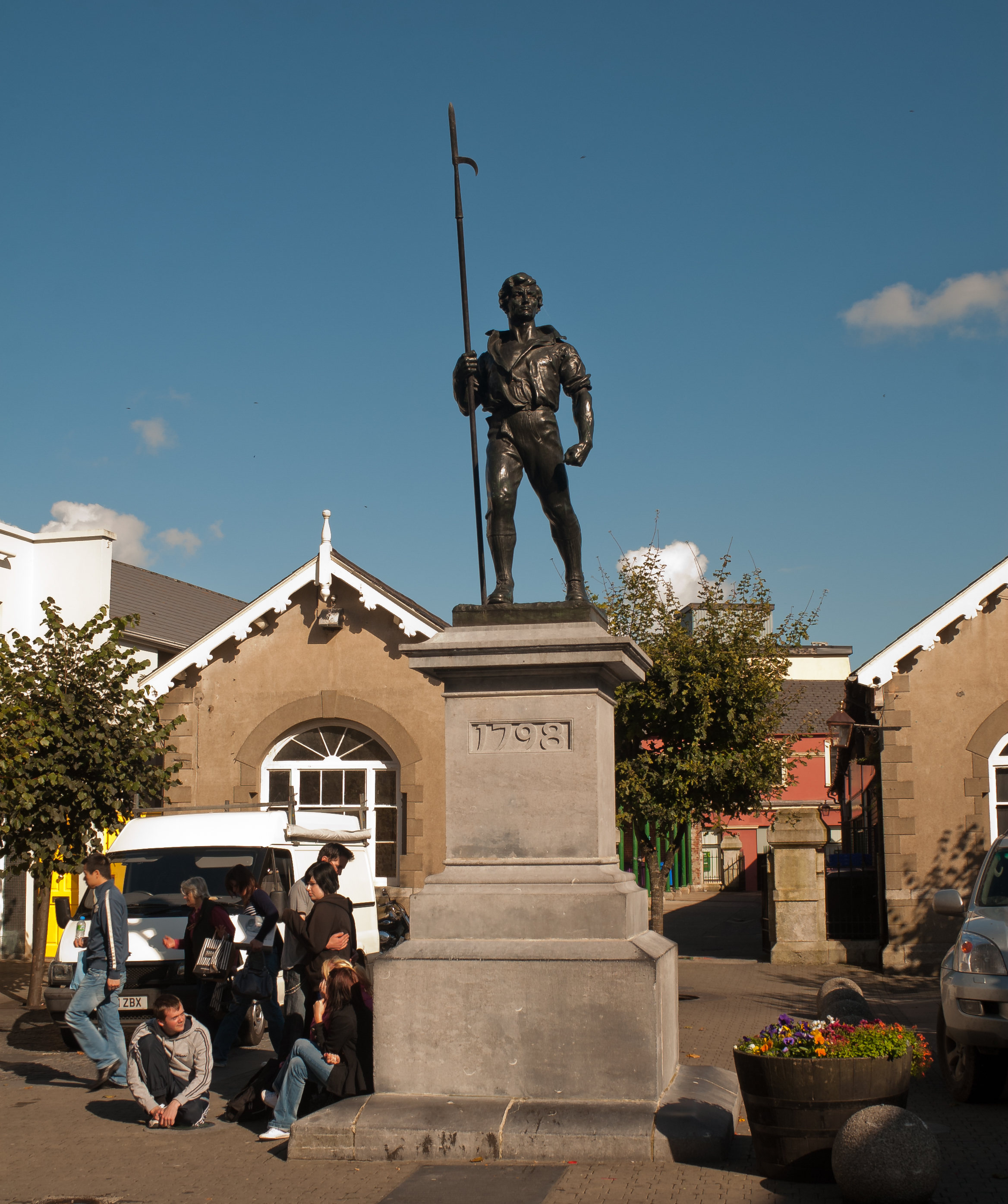 Statue of a pikeman in memory of the 1798 rebellion in Ireland at The Bullring, created 1905 by Oliver Sheppard (1865–1941). This statue was vandalized on 13 July 2010 (the top part of the pike was broken off) and restored on 27 September 2010, just two days before this photograph was taken.